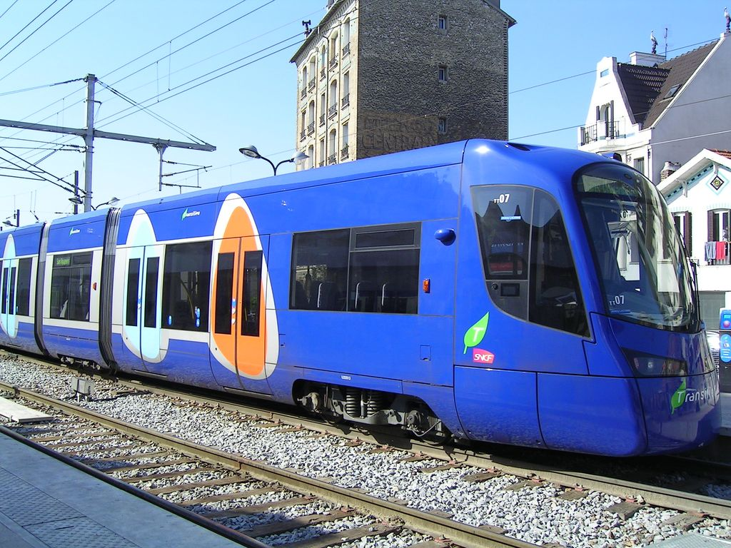 Tram Train Gare de Gargan Livry-Gargan Photo personnelle (own work) de Marianna